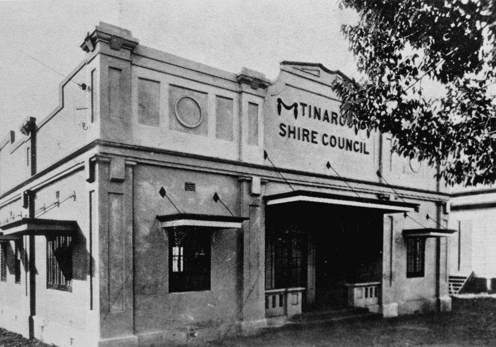 Tinaroo Shire Council Chambers in Atherton, Queensland, 1928 Tinaroo Council Chamber Offices had classical influences including decorative wreath motifs and a recessed entry with a stonework balustrade . The upper facia had columns and a classical pediment.